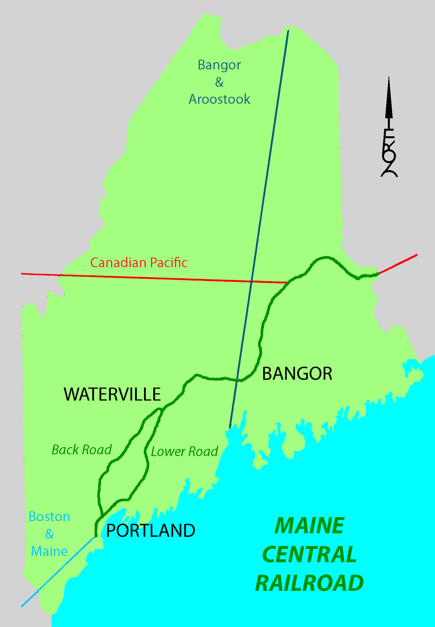 Map of the Maine Central Railroad main line from 1882 to 1974